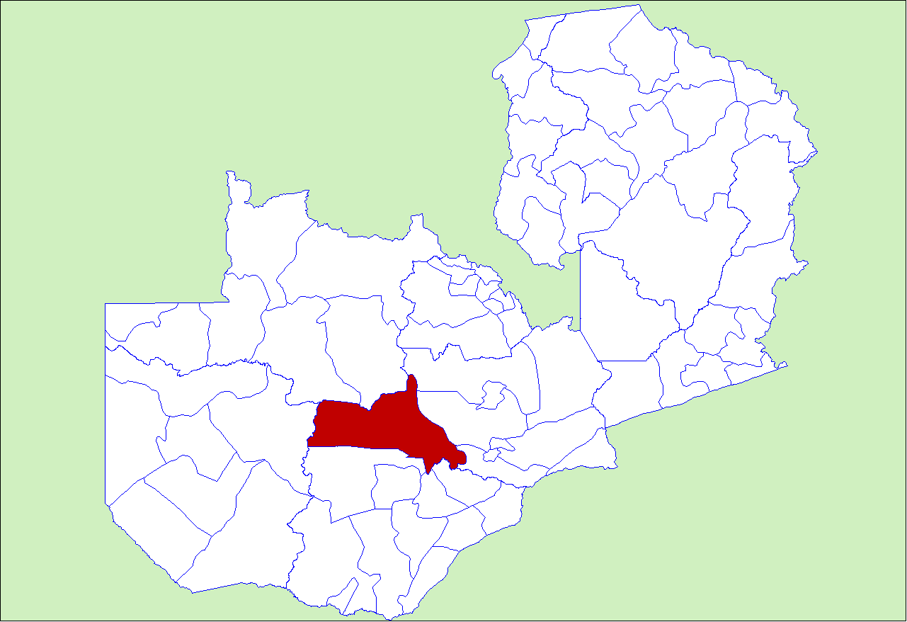 District locator in Zambia